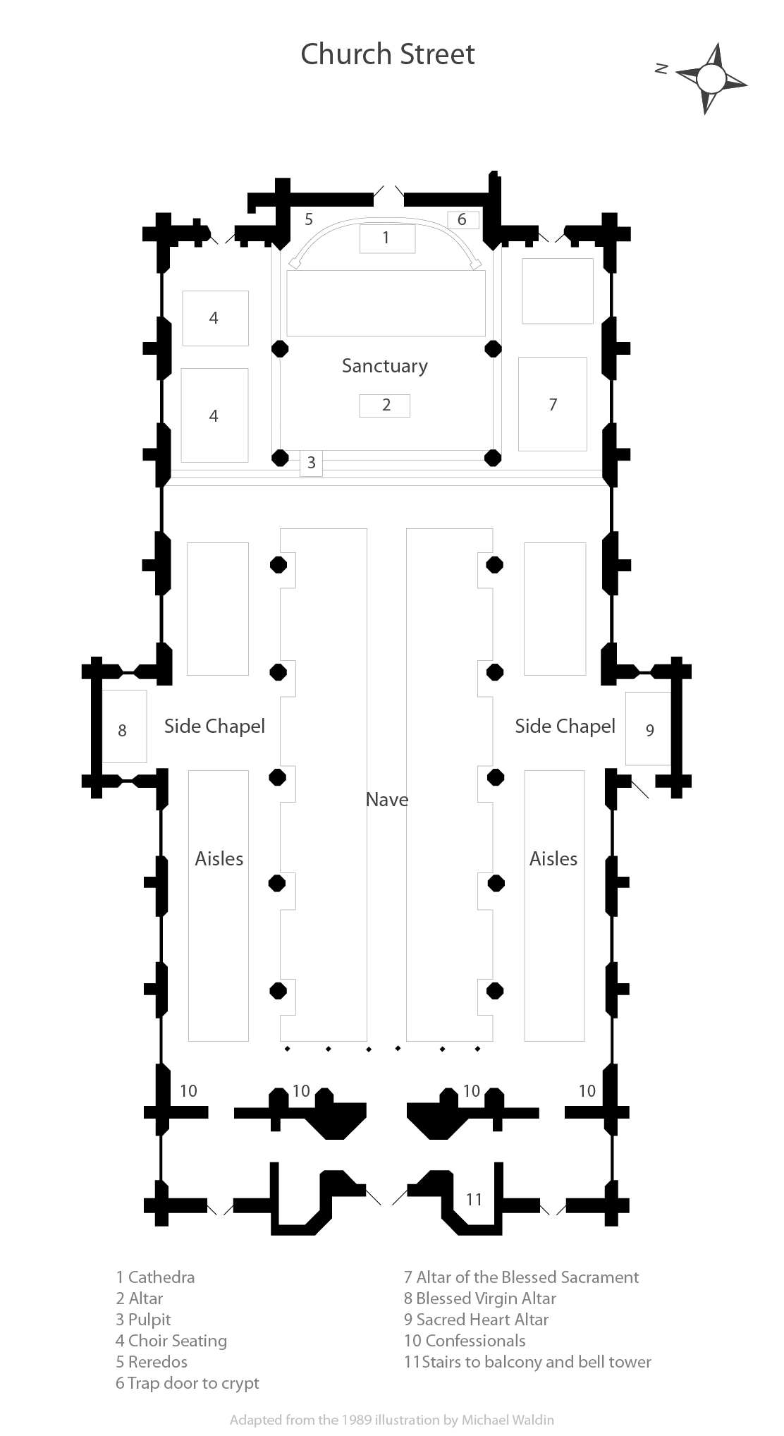 A floor plan of St. Michael's Cathedral adapted from the 1989 Illustration by Michael Waldin, with modifications to identify the nave, aisles and other interior components. The plan depicts the buttressed walls and demonstrates how the building is divided into 9 bay along it's length; 1 bay allocated to the entrance, 6 bays to the nave, and 2 bays to the sanctuary